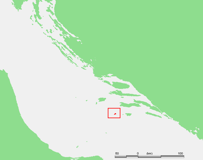 Island of Croatia - Croatia - Susac.PNG